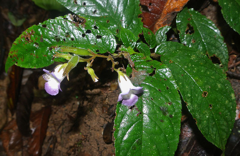 A variable species, native from Panama to Peru. Jatun Sacha Reserve, Ecuador. In context at